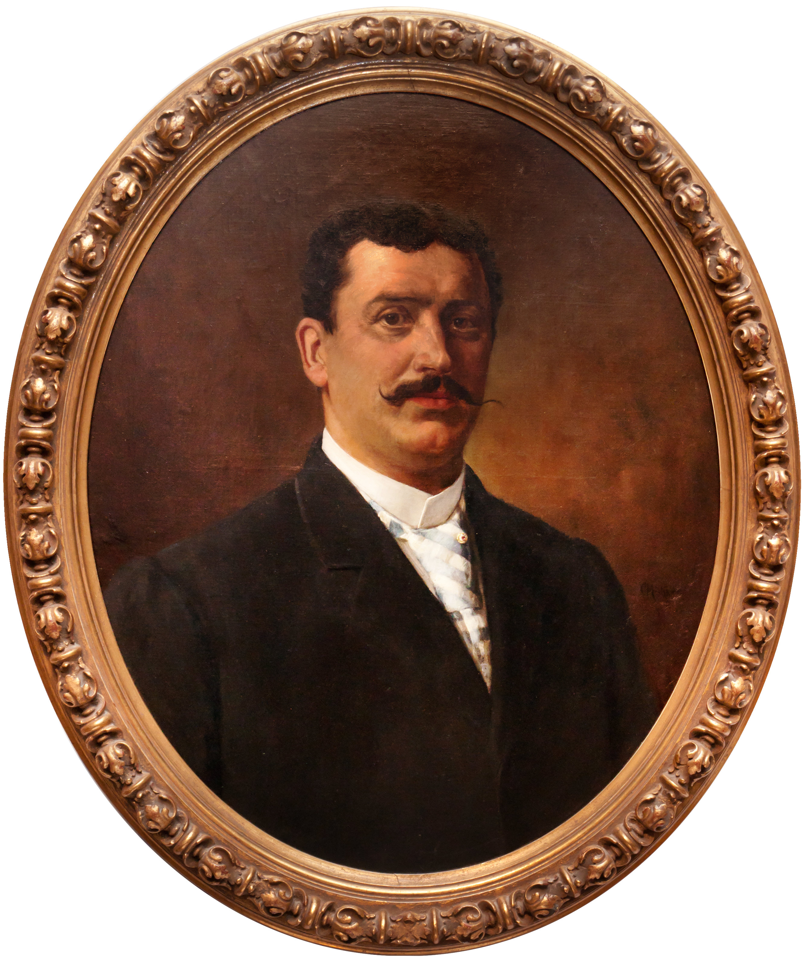 Portrait of the German entrepreneur Gustav Dürr 1853 - 1908; exact date and artist unknown